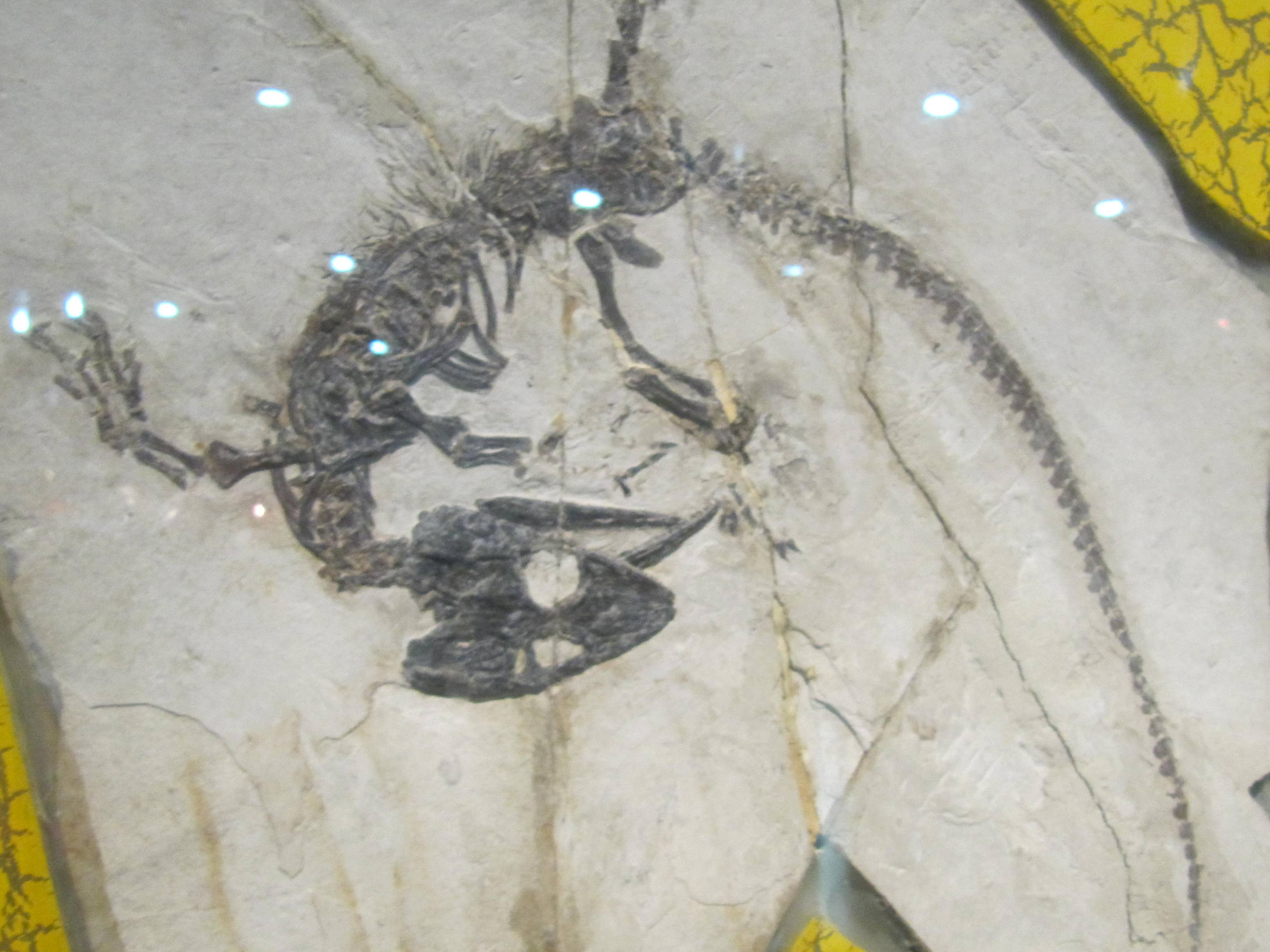 Monjurosuchus. Large collection of Fossils & Dinosaurs can be found at the Beijing Museum